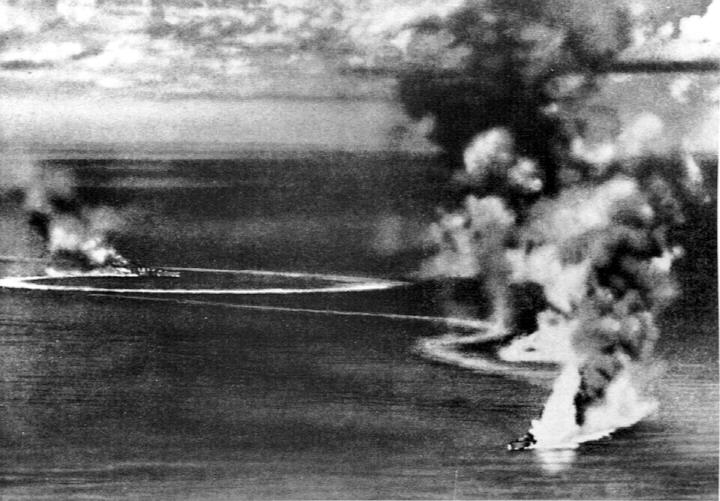 The Royal Navy heavy cruisers HMS Dorsetshire and HMS Cornwall under heavy air attack by Japanese carrier aircraft on 5 April 1942. The photo was taken from a Japanese aircraft.